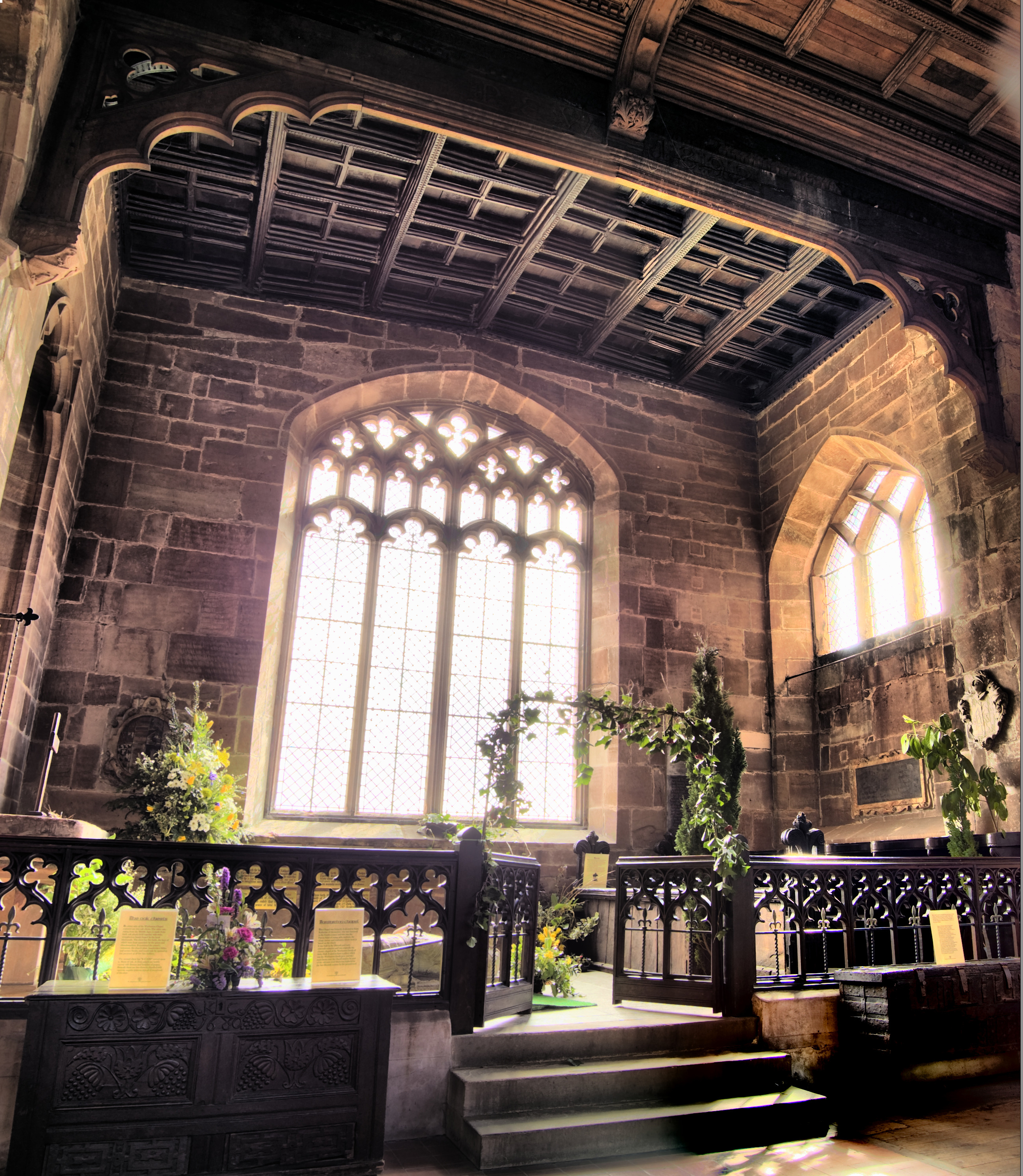 St Mary and All Saints Church, chancel, warburton chapel, Great Budworth